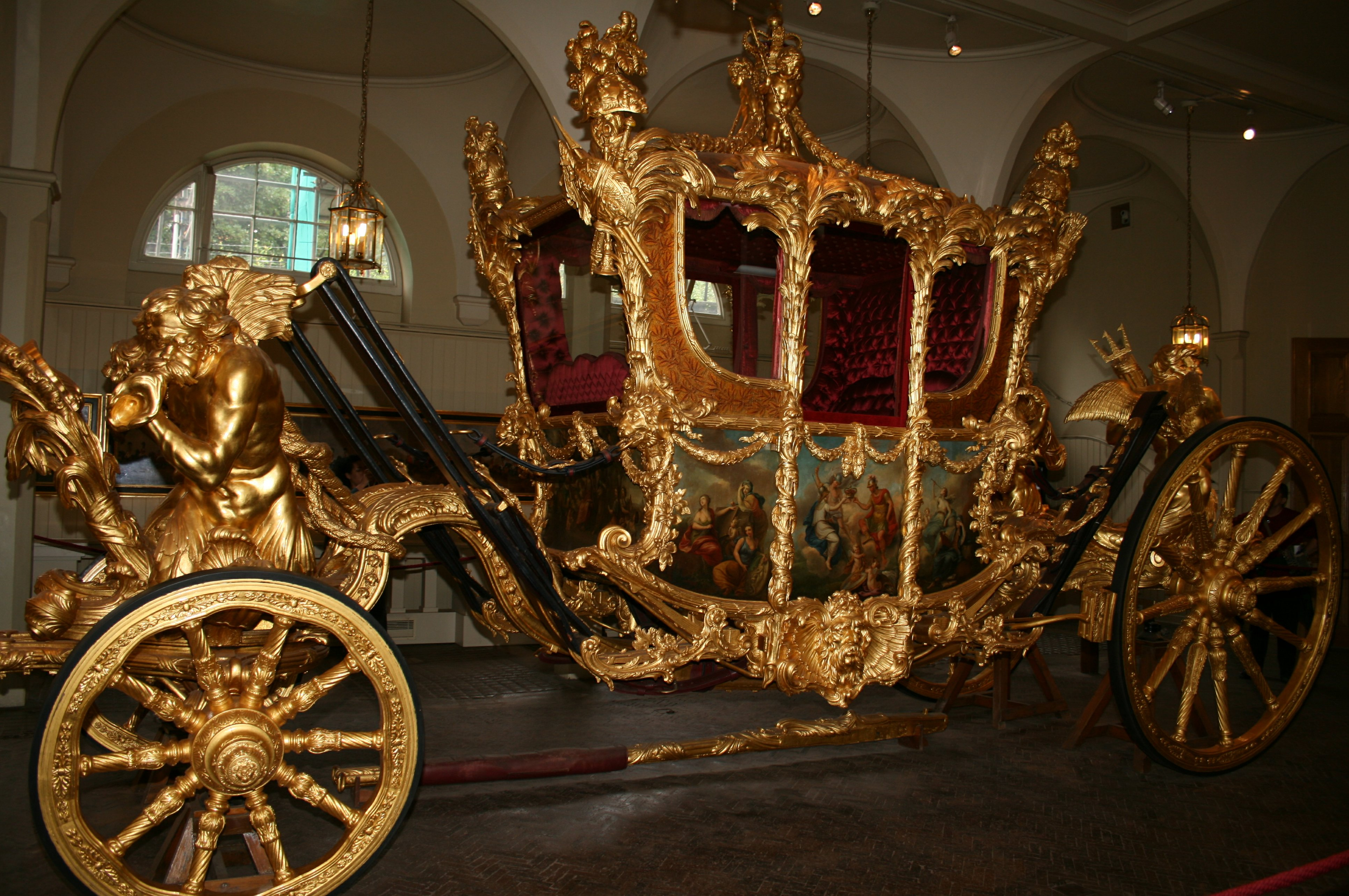 In and around London